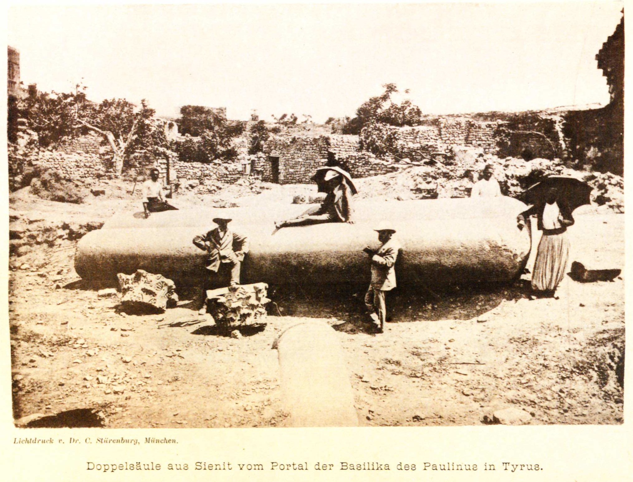 Photo of the ruins of the Crusader Cathedral in Tyre, where the bones of Holy Roman Emperor Frederick Barbarossa were supposedly buried, taken by German explorer Johann Nepomuk Sepp and published in his 1879 book, scanned from a copy at the Staatsbibliothek zu Berlin – Preußischer Kulturbesitz (Berlin State Library – Prussian Cultural Heritage)